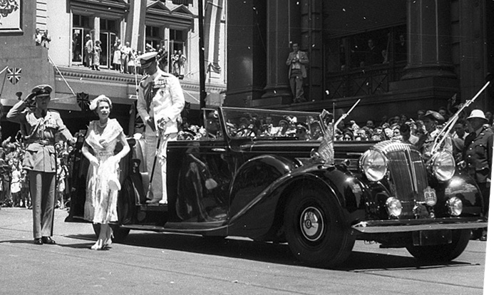 (Crop of) Queen Elizabeth arrives at the Cenotaph, Sydney, during the Royal Visit, 1954 photographer Jack Hickson.